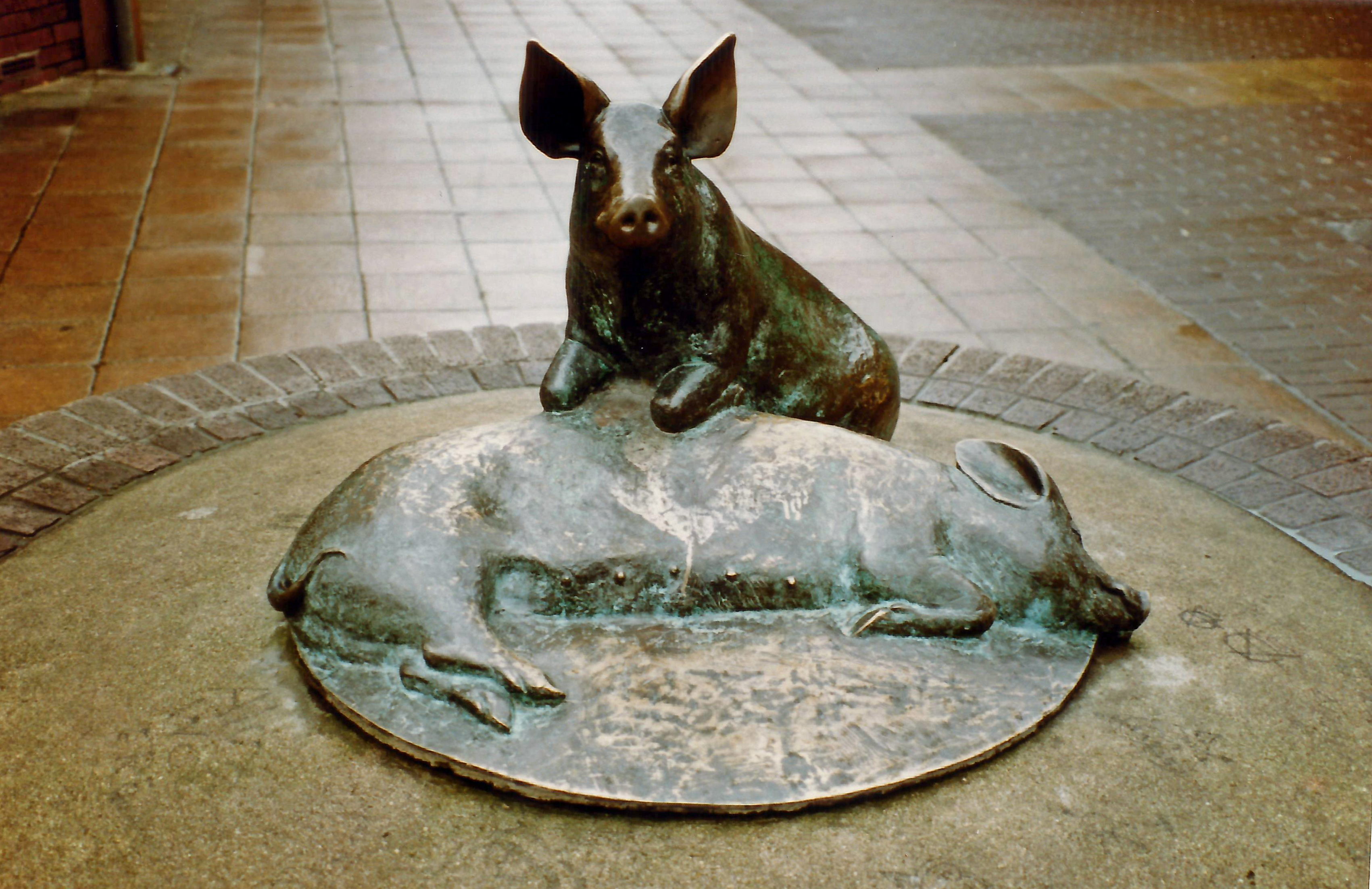 Bronze sculpture of pigs, Calne, Wiltshire, UK by Richard Cowdy. Installed on Phelps Parade in the 1970s.